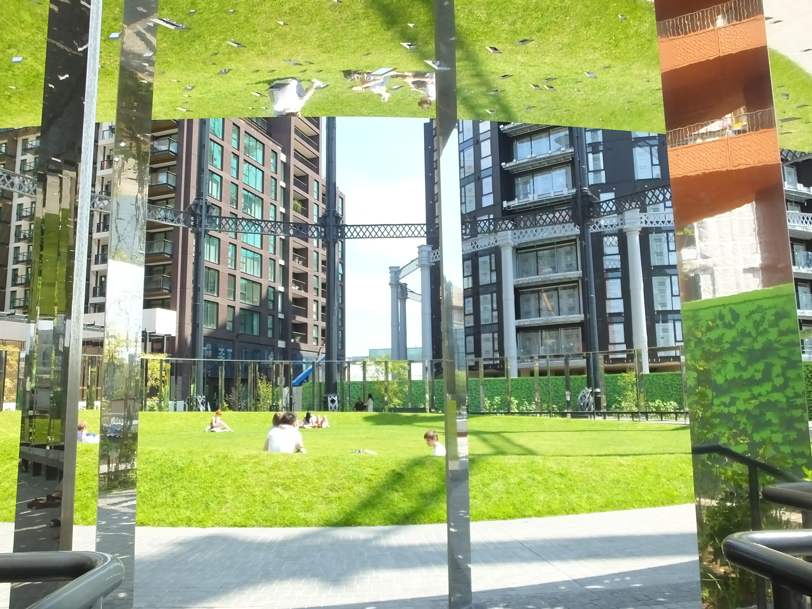 The Imperial Gas Light and Coke Company’s gasworks at St Pancras was opened in the 1820s. Gasholder No 8, was a cast iron John Clarke designed Type 14 from the late 1850s. It was de-commissioned in 2000, dismantled in 2013, restored and rebuilt 2016 to the north of the Regent's Canal by Engineer Morwenna Wilson along with 10, 11 and 12. Now named Gas Holder Park and featuring a mirrored installation.